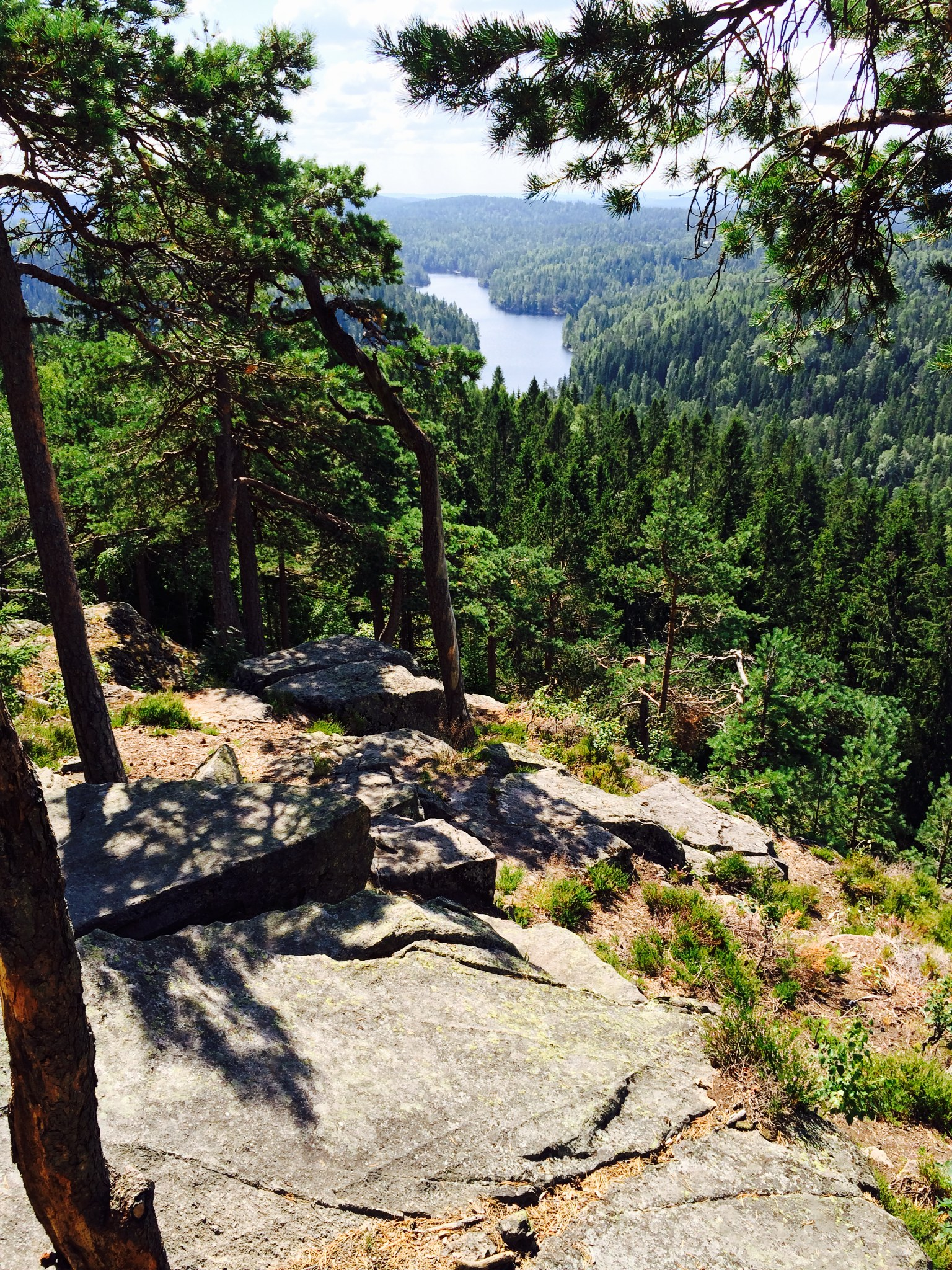 Tonekollen, looking south towards Mosjøen